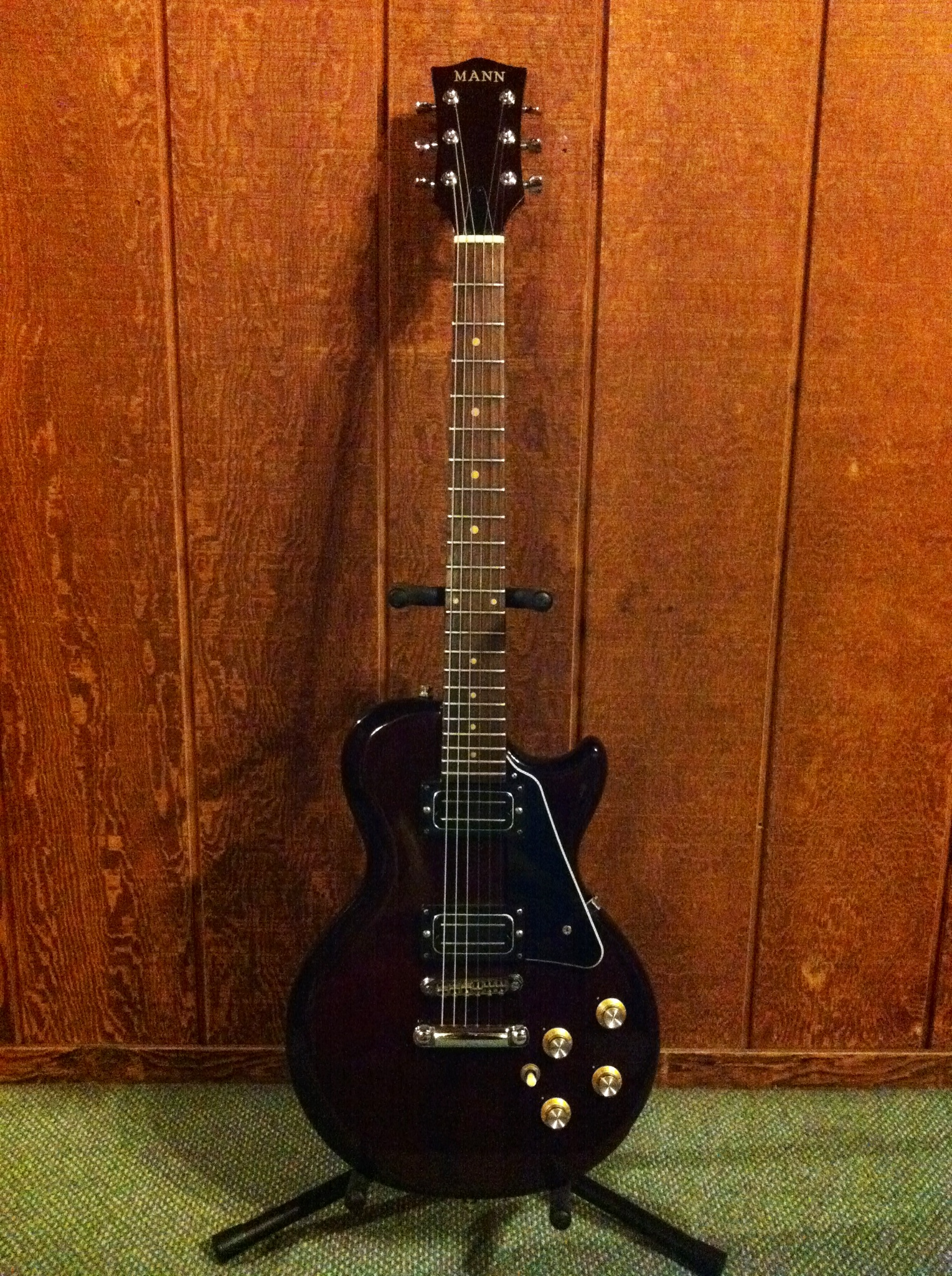 mid-1970s "lawsuit era" Japanese made, Mann-Ibanez electric guitar